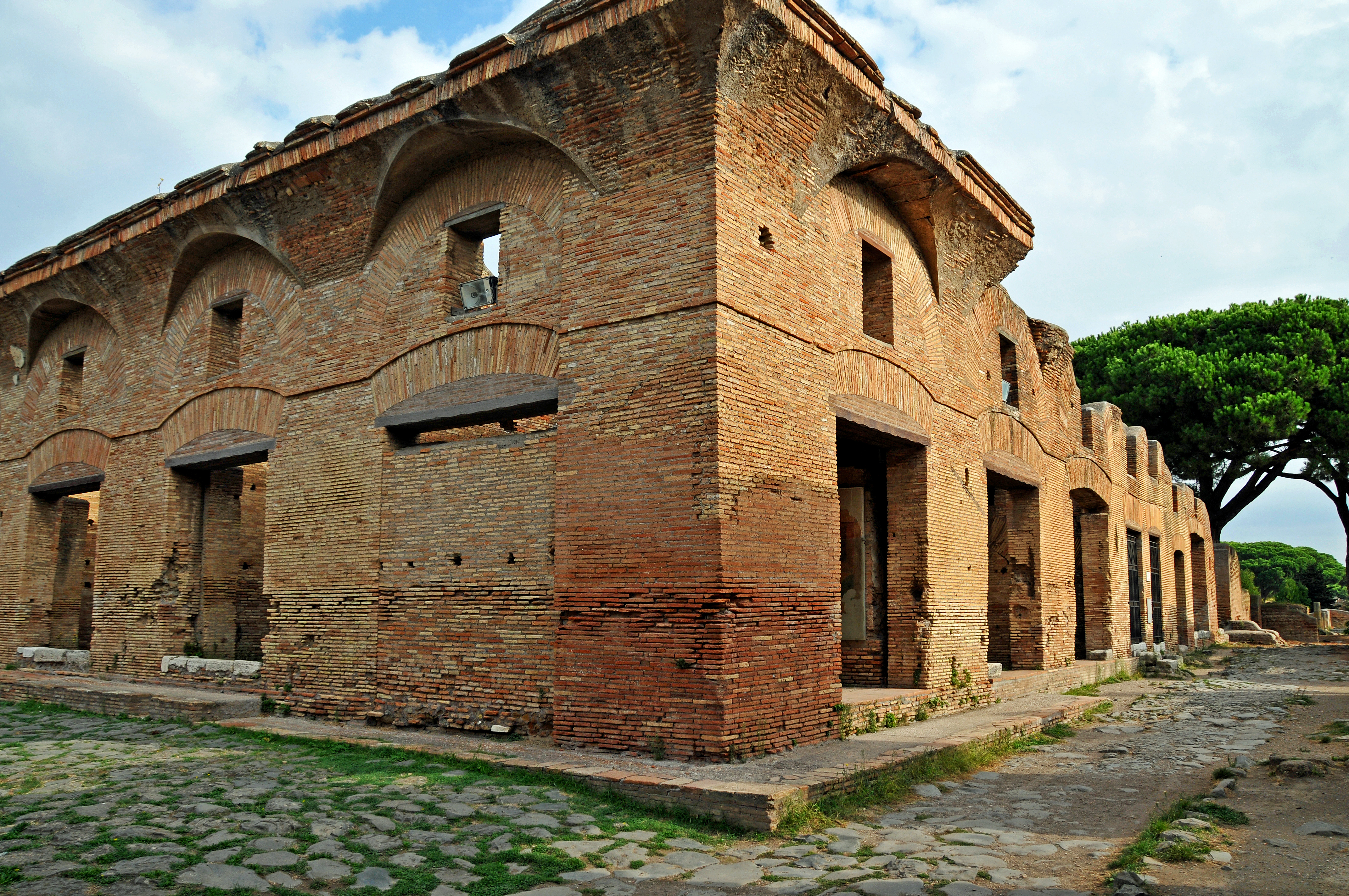 Ostian insula